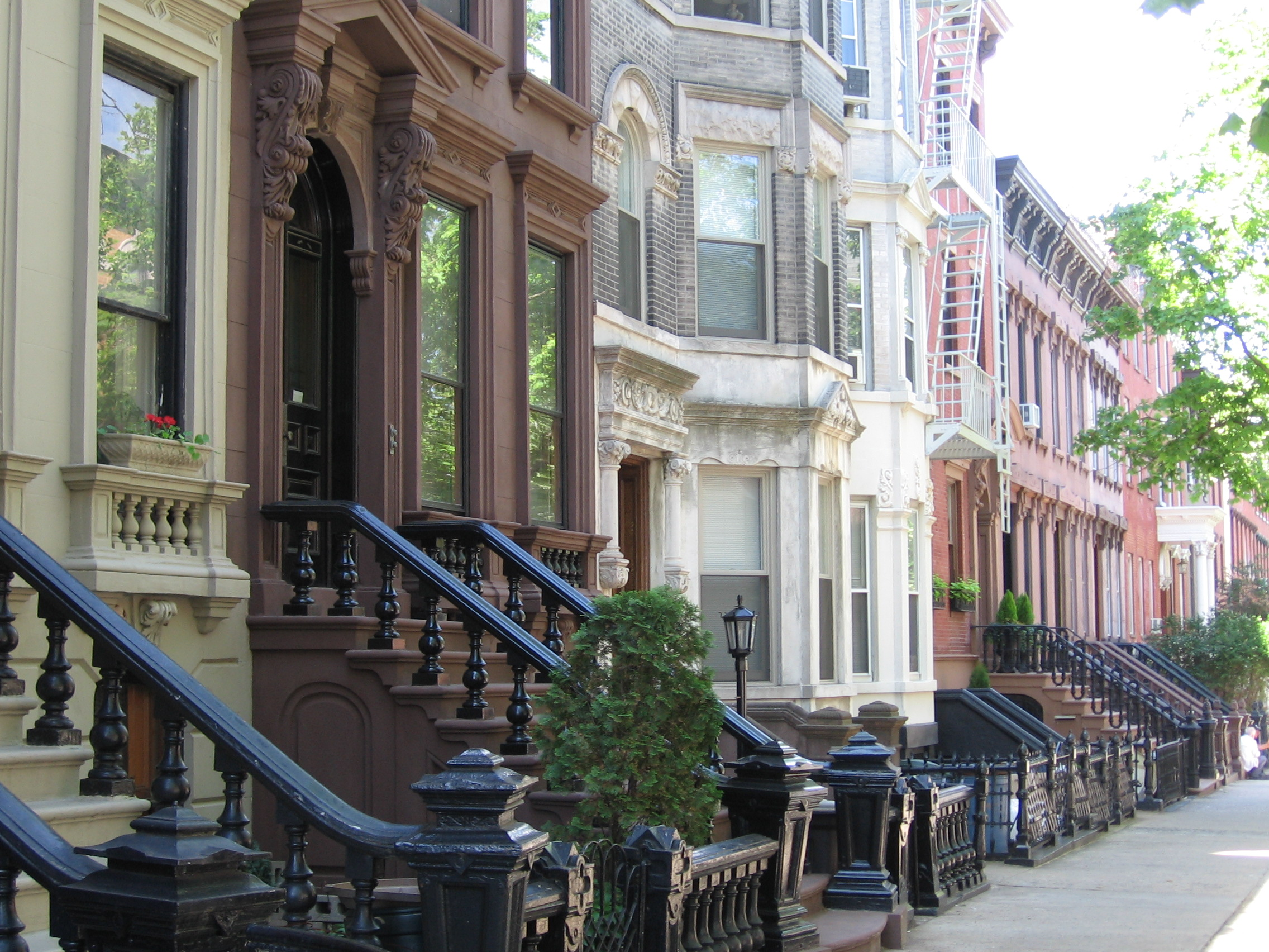 My photo of Greenpoint, Brooklyn, in June 2007.